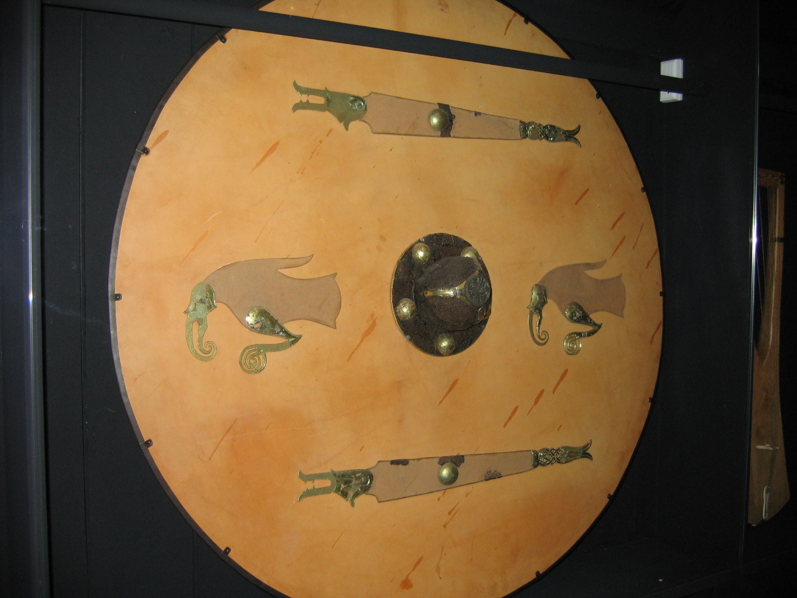 A Swedish shield from Vendel, directly comparable to the Sutton Hoo shield.